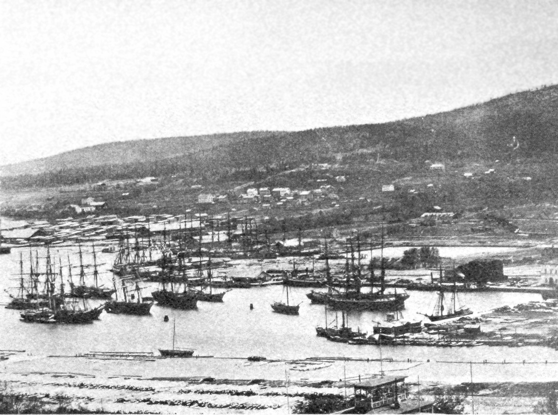 Sundsvall, a town in Sweden, during the 1870s